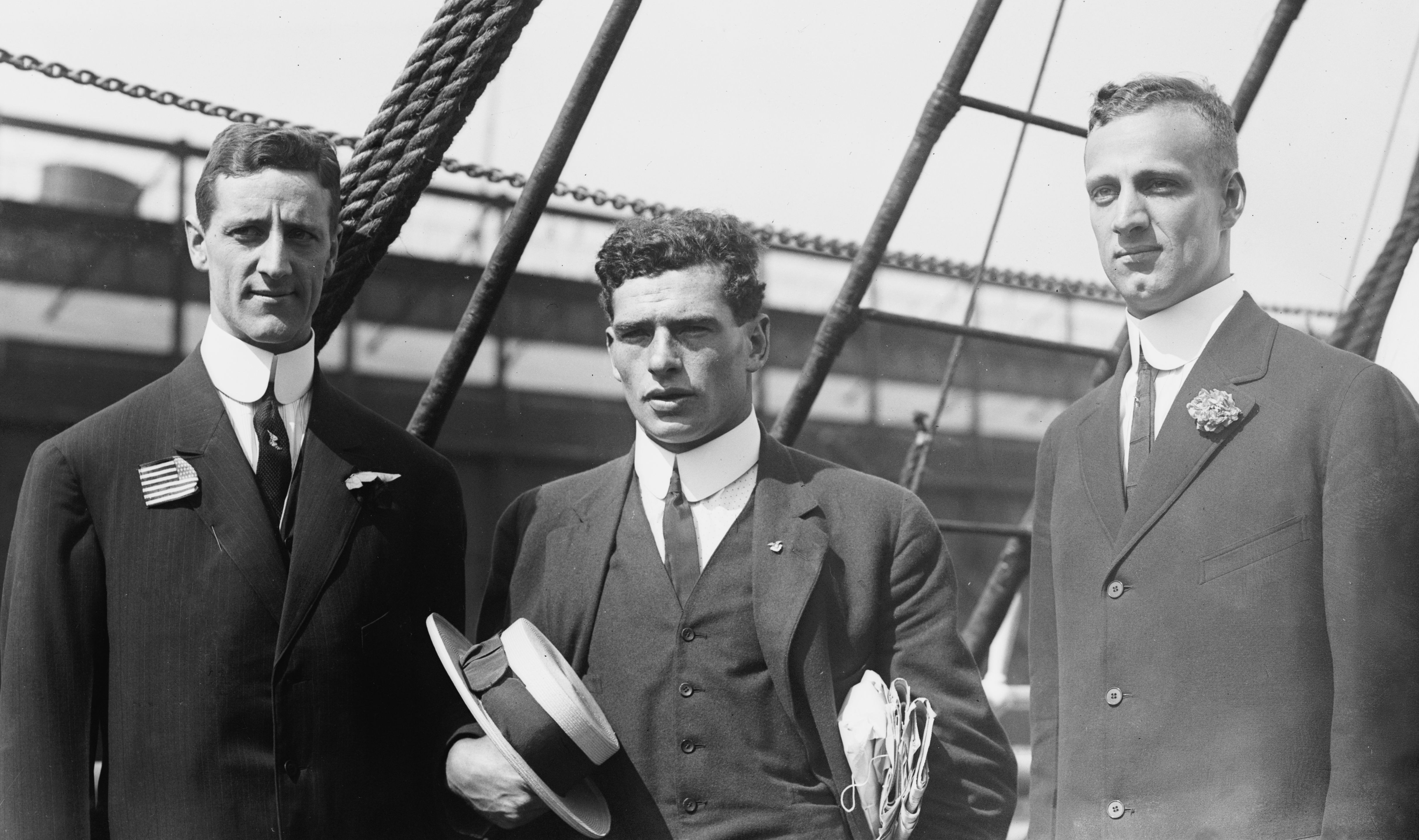 Platt Adams, James Duncan, and Benjamin Willard Adams in 1913